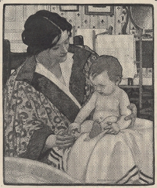 Jessie Willcox Smith, Ivory Soap illustration, 1901